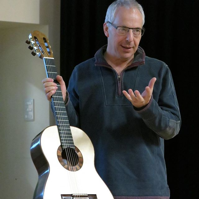 Image of Roy Courtnall Summerfield holding a guitar, Leicester MusicFest, February 2018